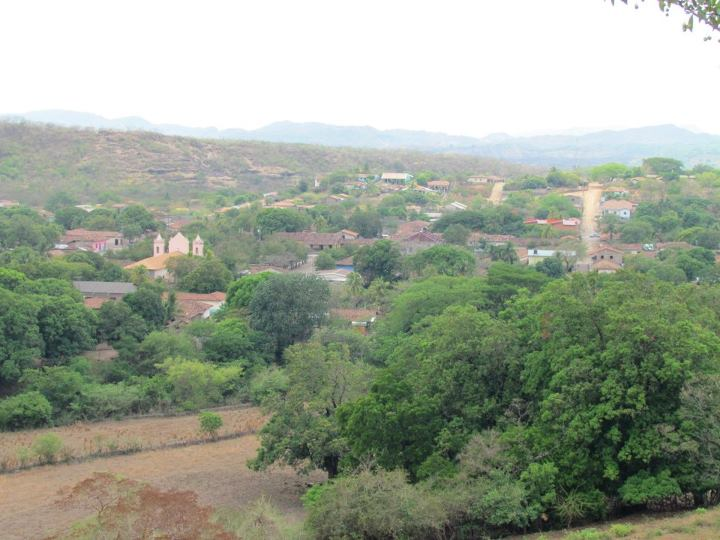 Aramecina City